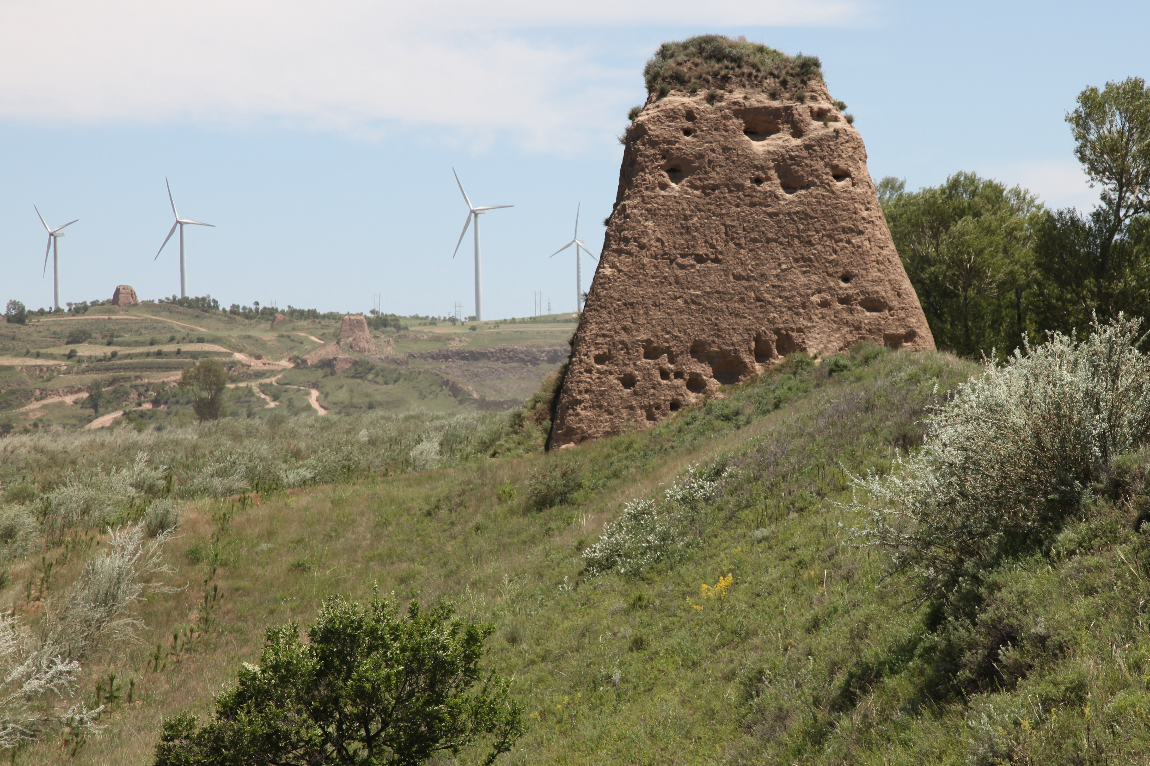 Great Wall with Towers. Shanhukouvillage, Datong, Shanxi.